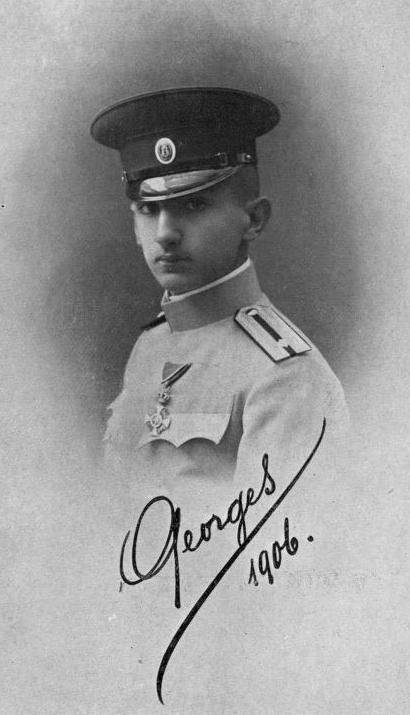 Original description: "His Royal Highness Prince George of Servia"